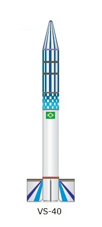 Brazilian VS-40 rocket shape.